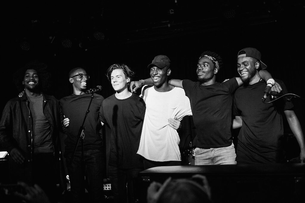 soundexp